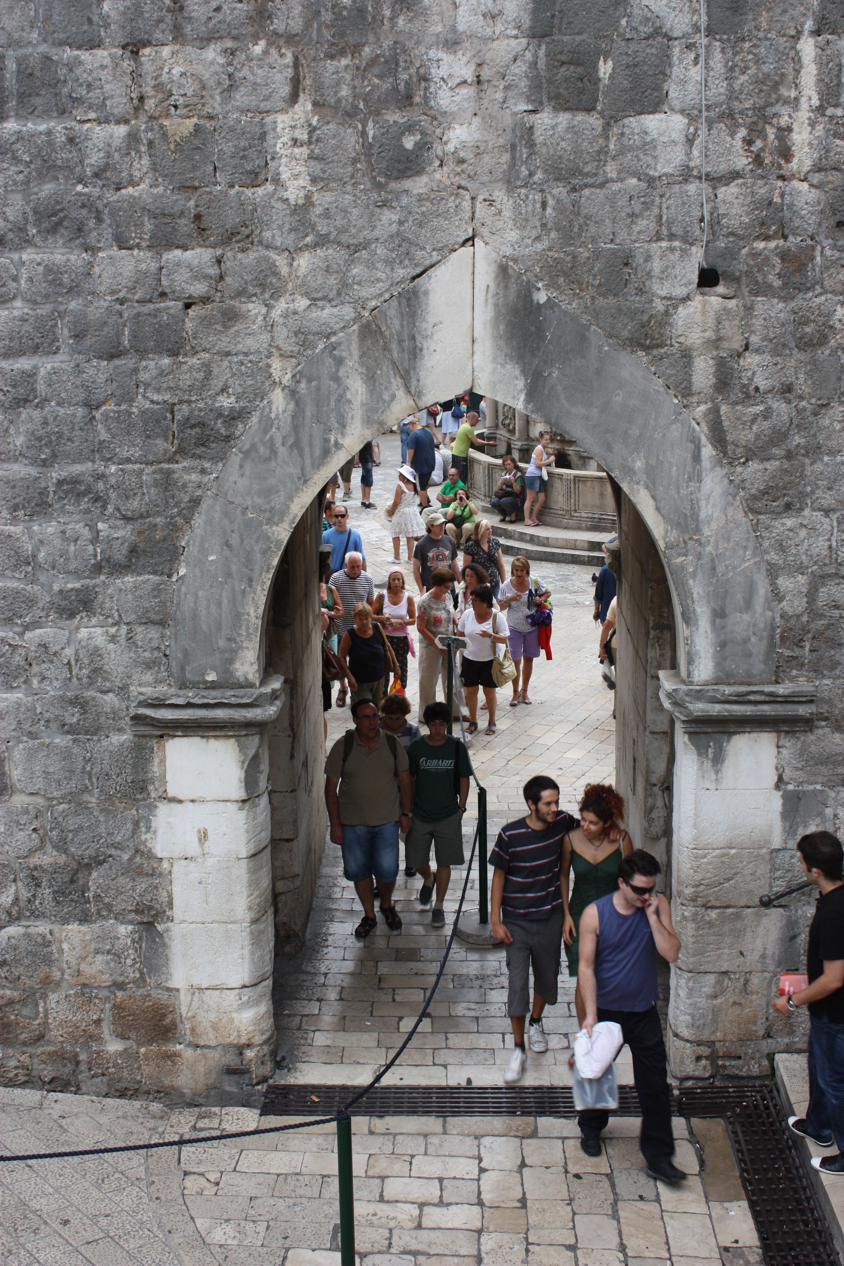 Entrance to Stradun, inside Pile gate, city walls, Dubrovnik, Croatia, July 2011